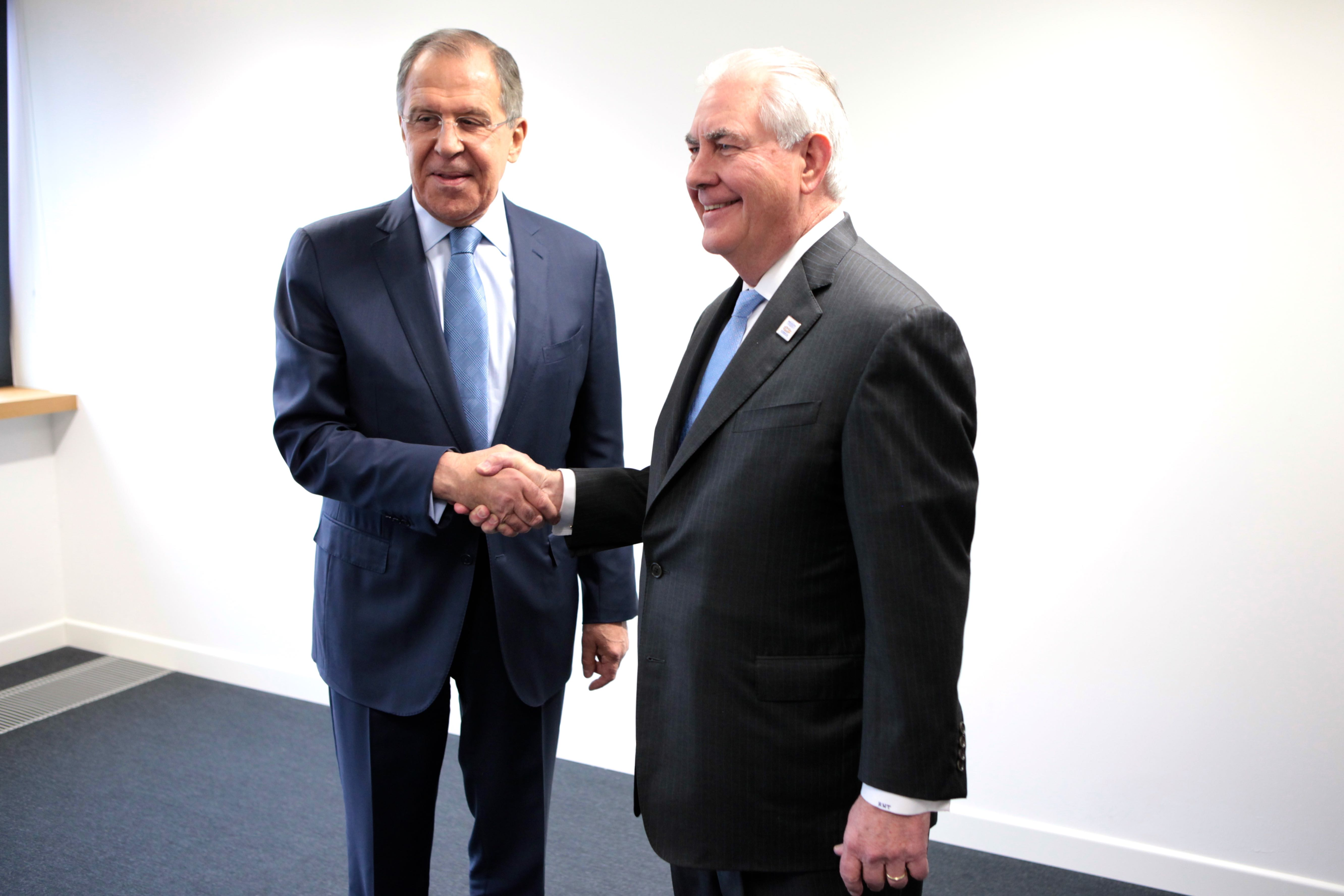 U.S. Secretary of State Rex Tillerson shakes hands with Russian Foreign Minister Sergey Lavrov before their bilateral meeting on the sidelines of the G-20 Foreign Ministers’ Meeting in Bonn, Germany, on February 16, 2017. This is his first official trip as Secretary of State. [State Department photo/ Public Domain]State Department photo/ Public Domain]